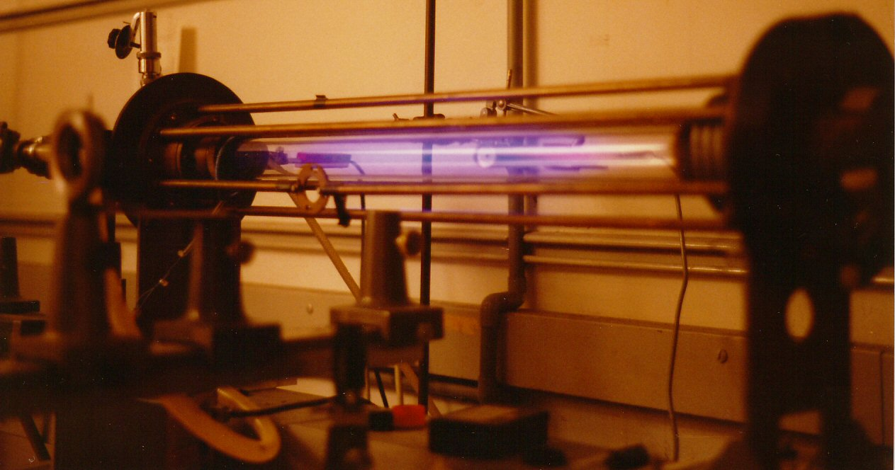 Double exposure photograph of a laboratory scale z-pinch device in operation with a Hydrogen plasma. One exposure not operating, a second through a Hydrogen Balmer-gamma emission line narrow bandwidth filter, capturing emission from the plasma while the device was operating (the purple glow).